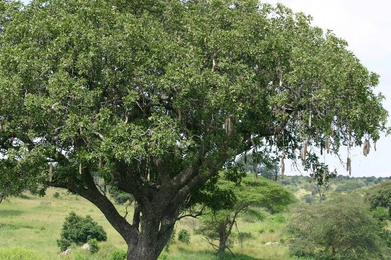 Sausage tree in Tarangire, Tanzania